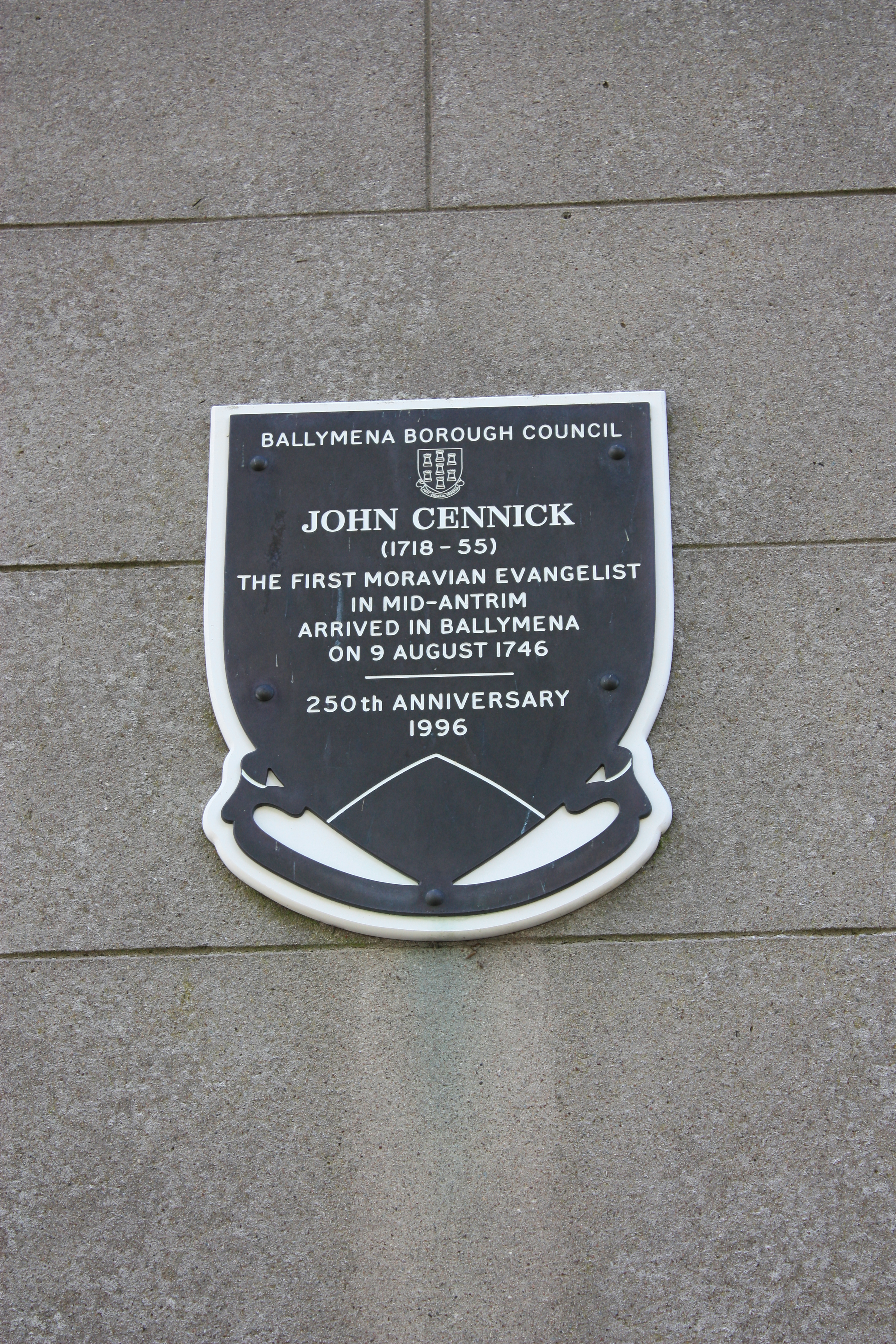 John Cennick plaque, Moravian Church, Church Road, Gracehill, Ballymena, County Antrim, Northern Ireland, September 2009